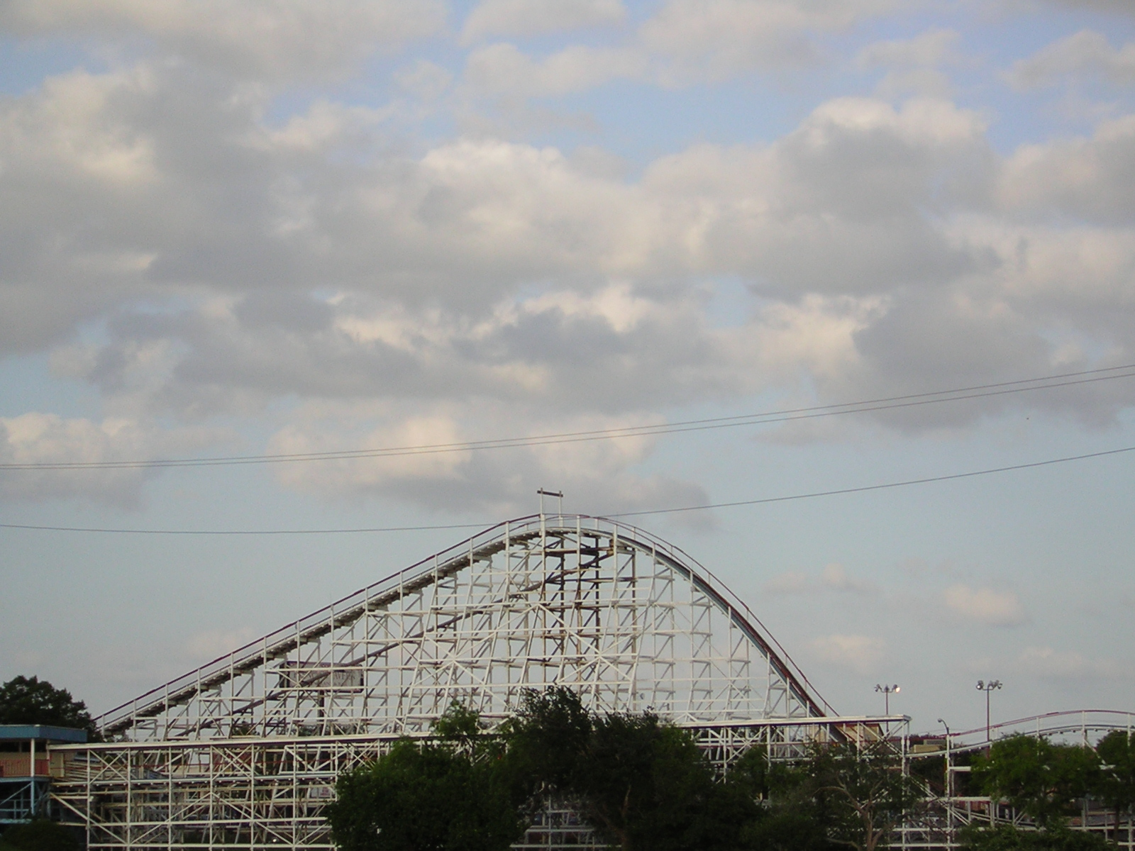 Sadly, the only ride we couldn't go on. It was closed for maintenance all day :(.